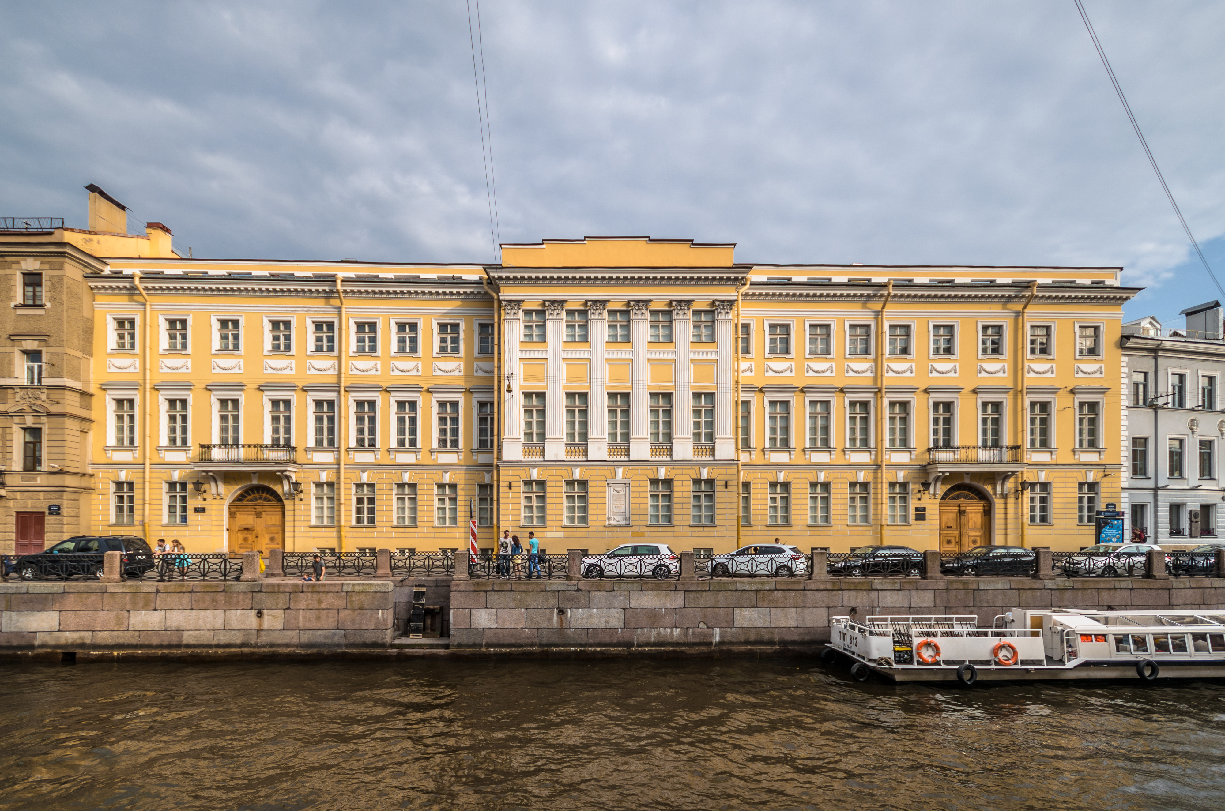 Moyka-12, Pushkin's Apartment Museum in Saint Petersburg